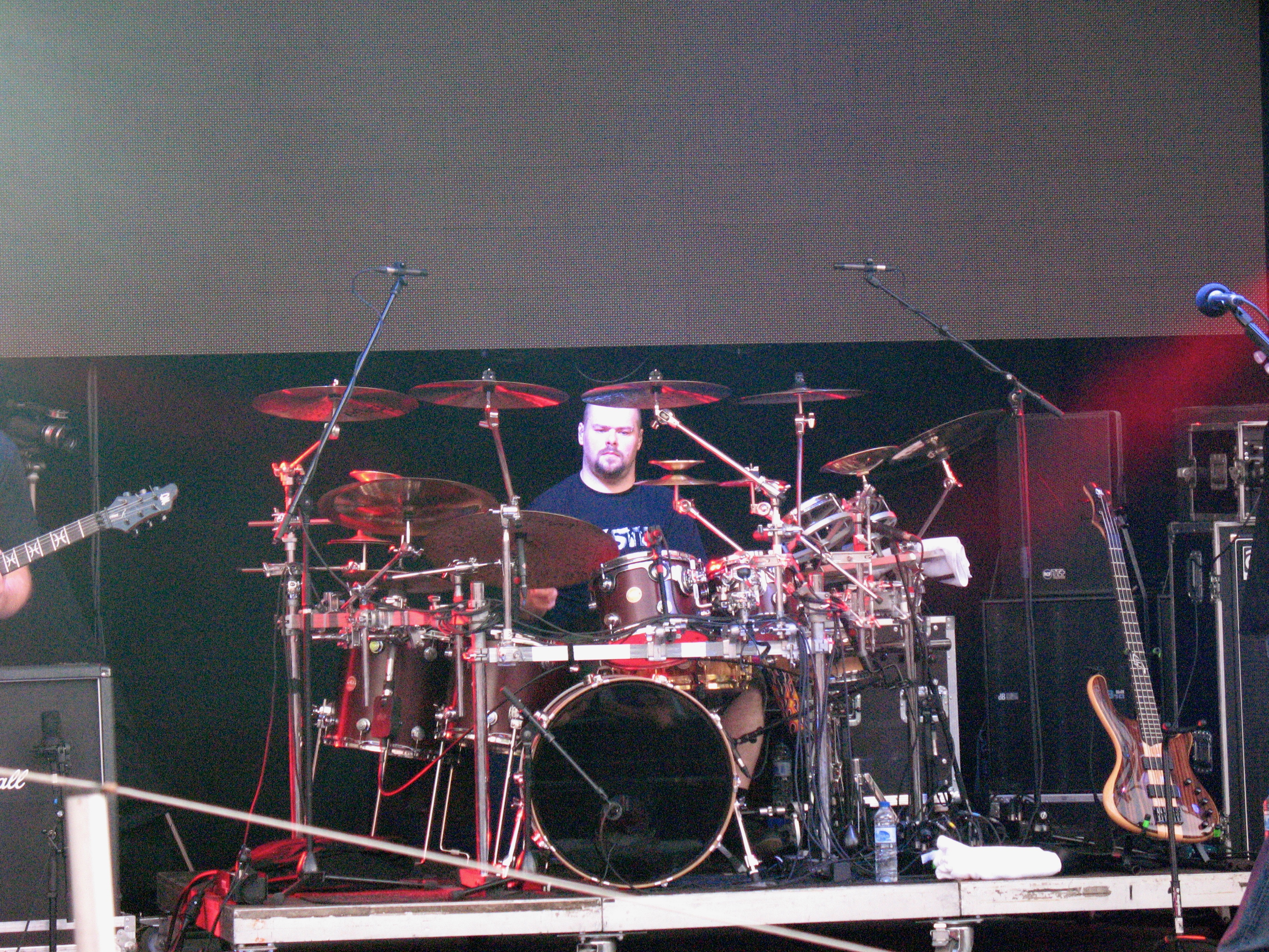 Piotr "Mitloff" Kozieradzki of Polish rock band Riverside